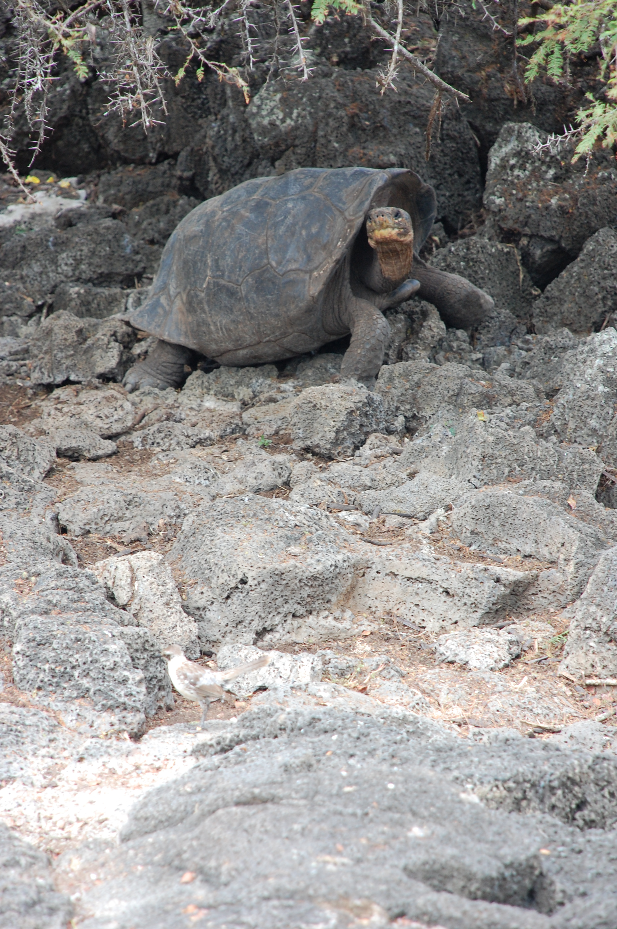 Lonesome George, Galápagos Islands.